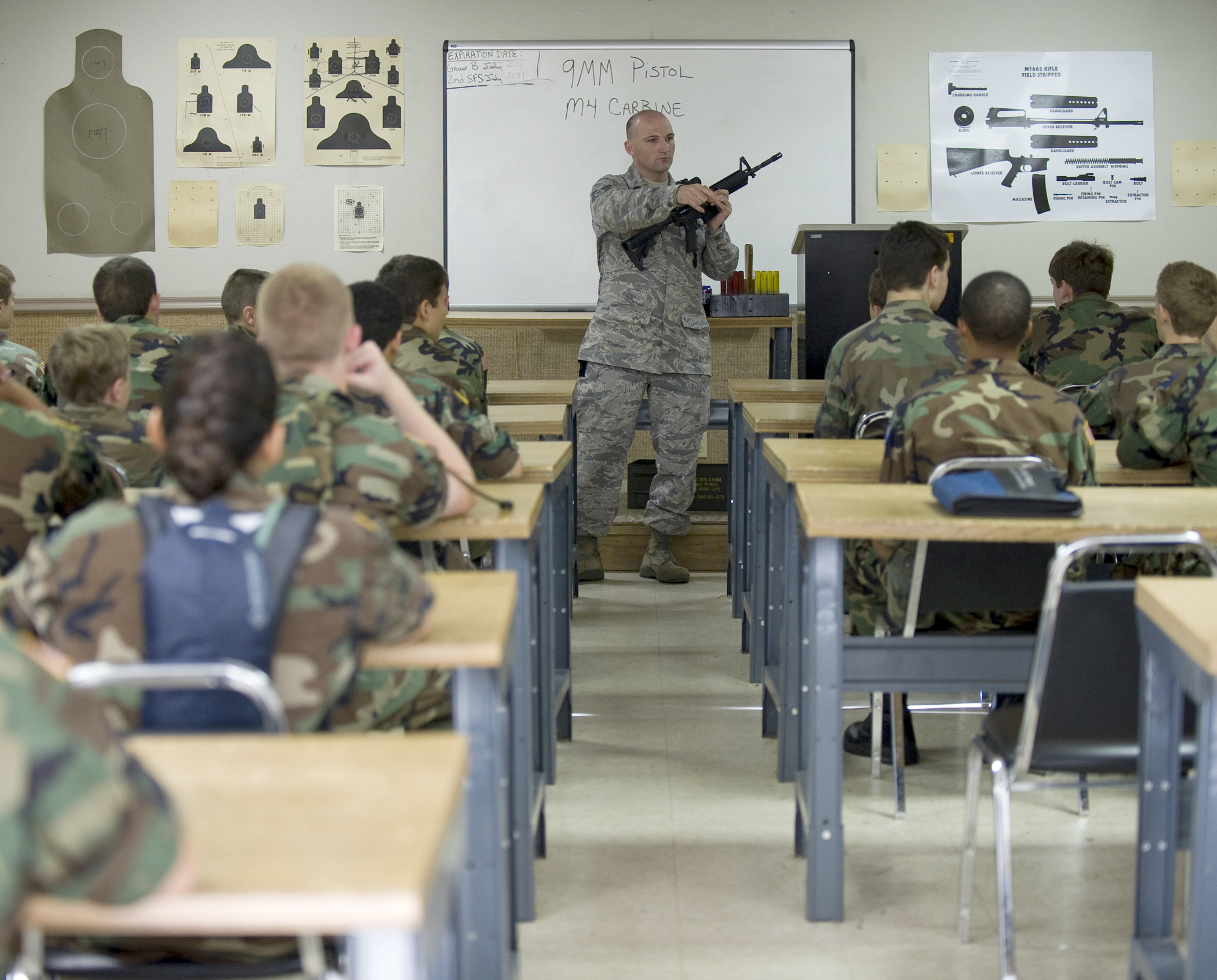 Tech. Sgt. Lee Thompson briefs several Civil Air Patrol cadets on the capabilities of the M-4 carbine rifle during a weapons demonstration July 22, 2010, at Barksdale Air Force Base, La. The course was part of the annual CAP Louisiana Wing Cadet Encampment held here July 15 through 25. Sergeant Thompson is with the 2nd Security Forces Squadron. (U.S. Air Force photo/Senior Airman Chad Warren)